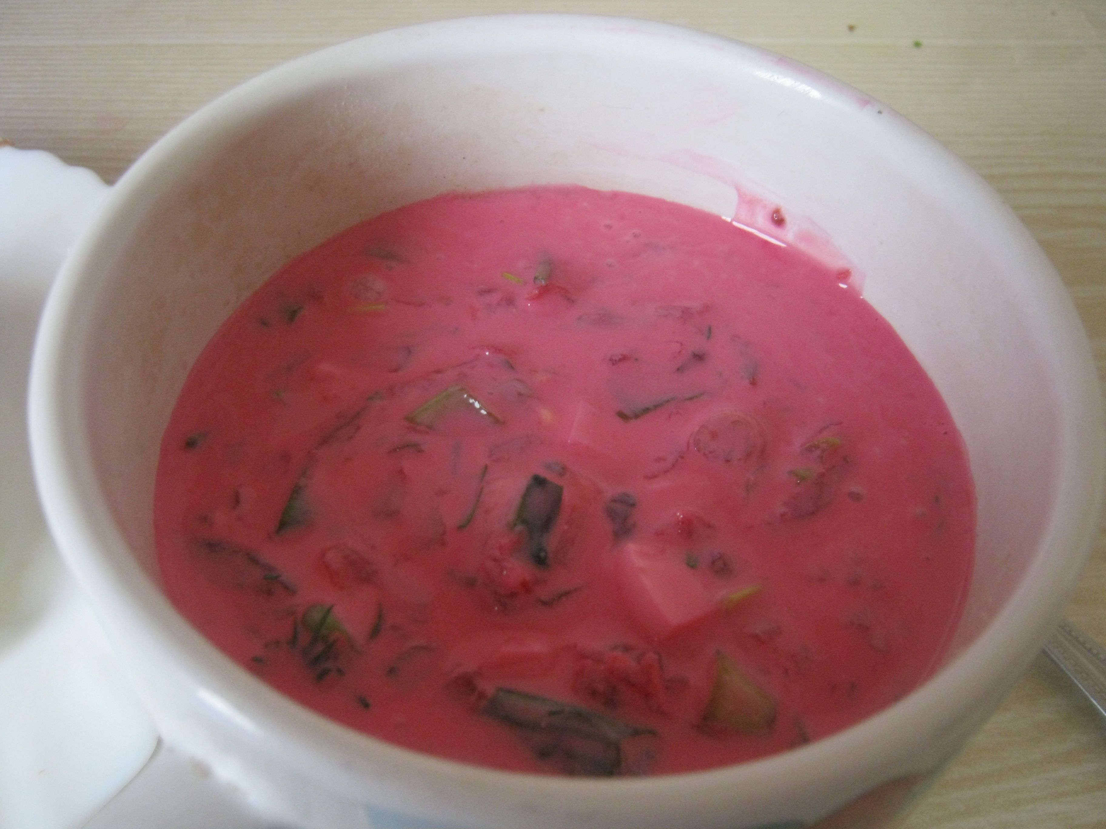 Lithuanian cold borscht